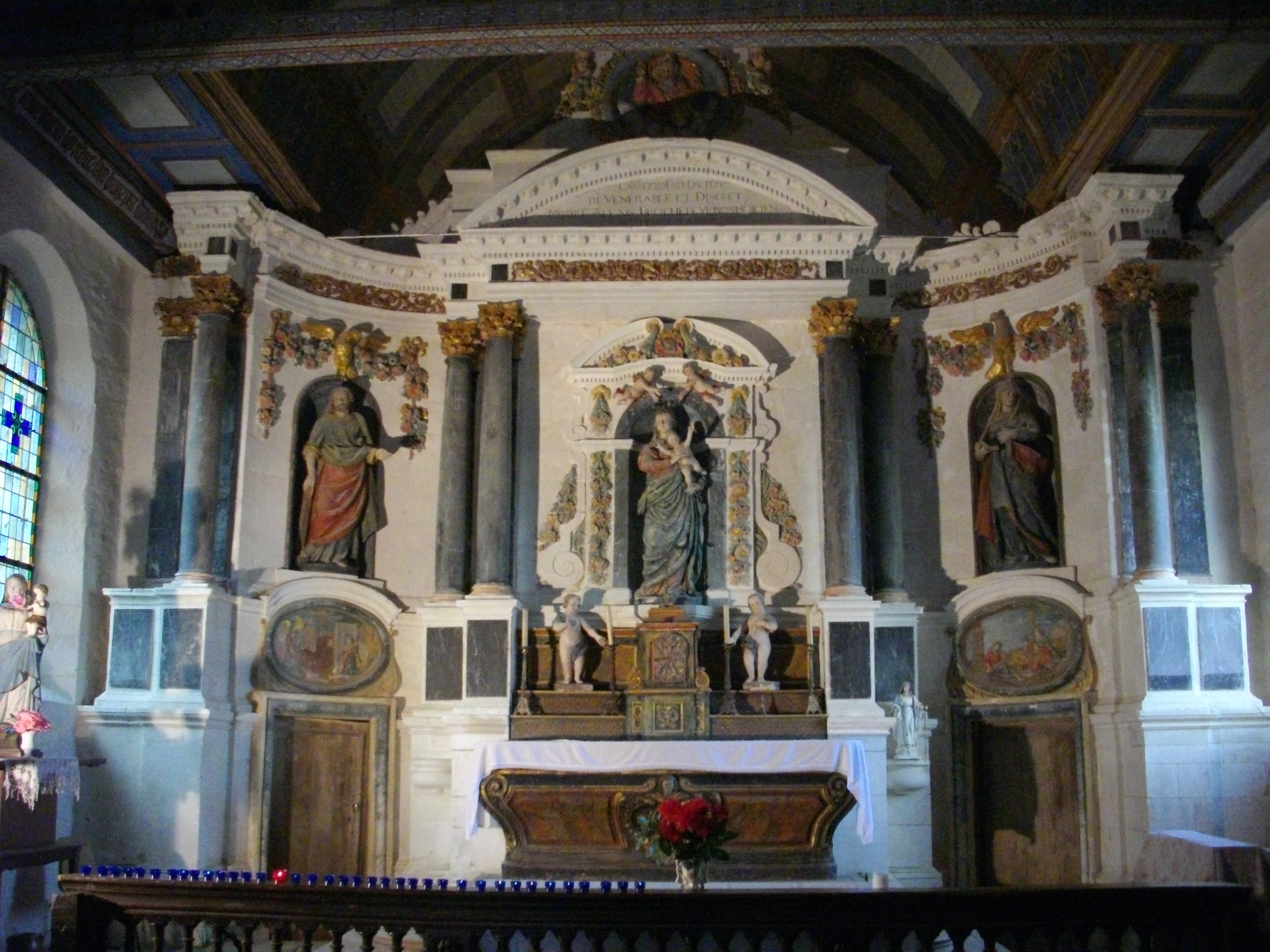 Interior of the Mangolérian's chapel in Monterblanc (Morbihan, France)